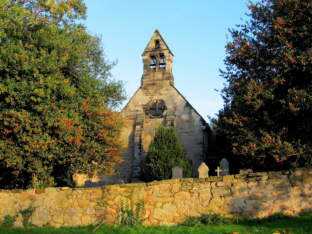 Stanton by Bridge, St Michael, with its 19th century bell-cote. Parts of the building date back to Anglo-Saxon times. Usually LOCKED. See